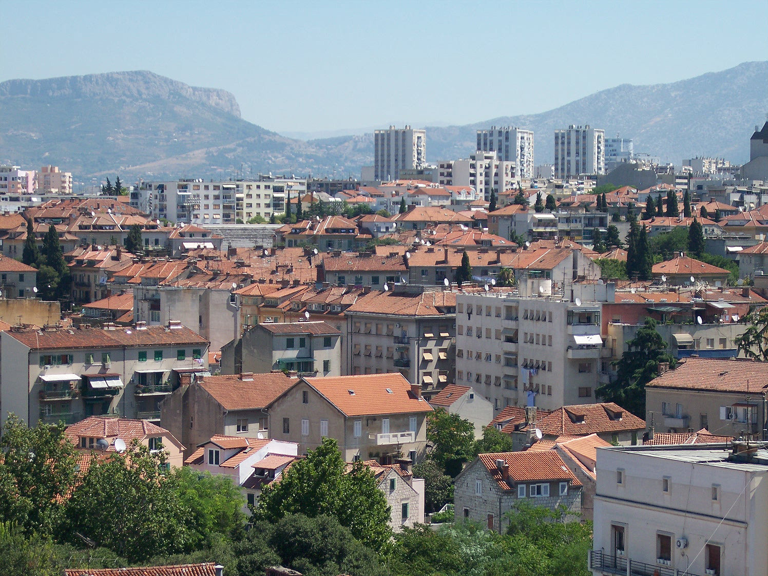 View of Split